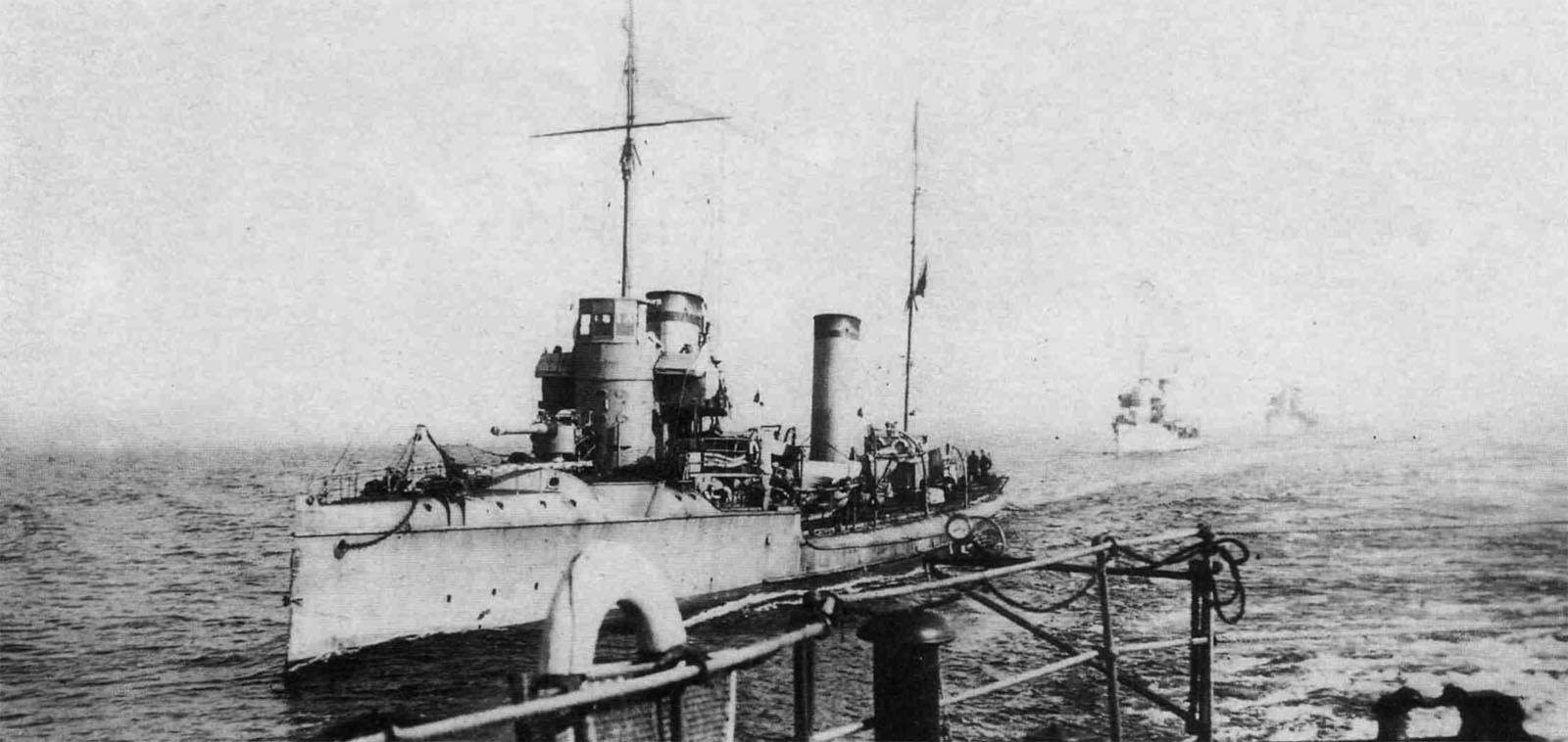 Imperial Russian destroyer Moskvityanin.